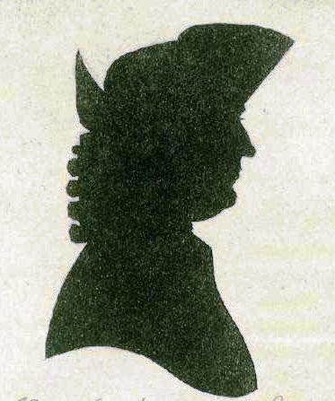 Henry Watson who first made ornaments from Ashford Black Marble died in 1786 aged 72